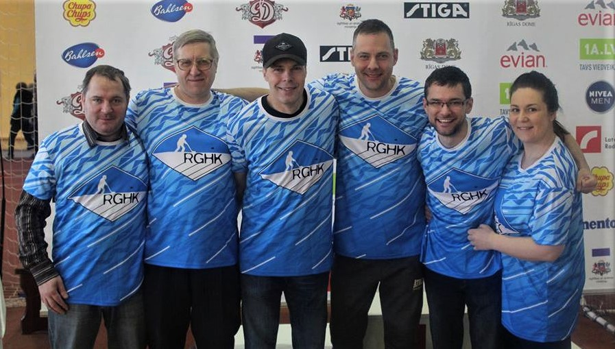 Before awarding in World Clubs Championship. From left - Sternāts, Belševics (loaned player from club "Melnie zirdziņi"), Skarainis, Mihejevs, Faļkenšteins, Faļkenšteina.